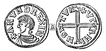 Coin made by Anund Jakob Jonsson